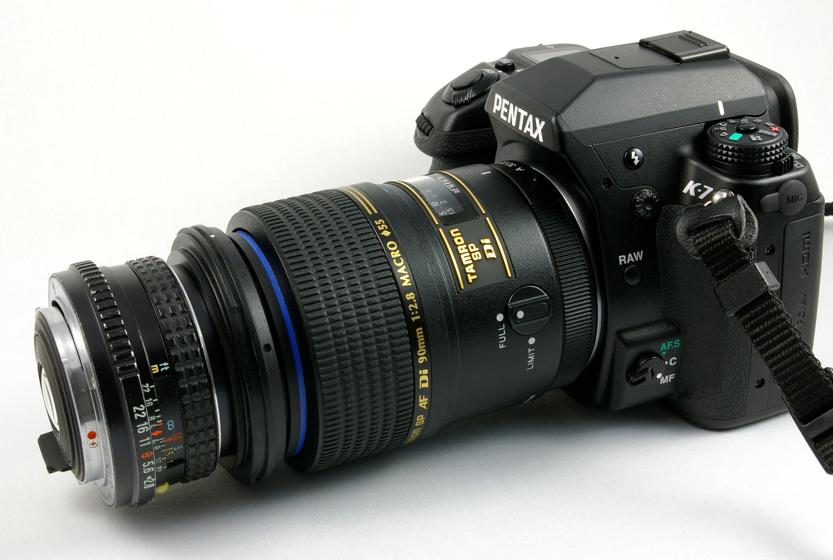 The DSLR camera Pentax K-7 with macro lens Tamron SP AF 90 mm F/2.8 Di MACRO 1:1 and wide-angle lens smc Pentax-M 28 mm F/2.8 installed in "reverse position", using a coupling ring between both filter threads. This combination allows a three times higher magnification (3.2:1) compared to the macro lens alone (1:1). The focal length of the camera-mounted lens – 90 mm, in this case – is crucial to the magnification ratio (calculation is 90:28 = 3.2). It doesn't need to be a real macro lens, any other telephoto lens with that focal length has the same effect. The usage of a tele lens of 300 mm instead would even lead to a magnification of 10.7:1 (theoretically). In order to achieve a larger depth of field, the aperture ring on the reversed lens should to be closed as far as possible (so, it's very useful to have one there!). However, the practical benefit of the method is severely limited, since there is just a tiny focal plane at a working distance of only about 4 cm (~1.5 inch). Moreover, the quality of photos taken with this equipment seems to be rather mediocre (see photo links below). For me, this method is just a stopgap. In case I want to create a close-up photo with a strong magnification, now I use the shown macro lens combined with a 2×TC (Soligor; see e.g. this result).